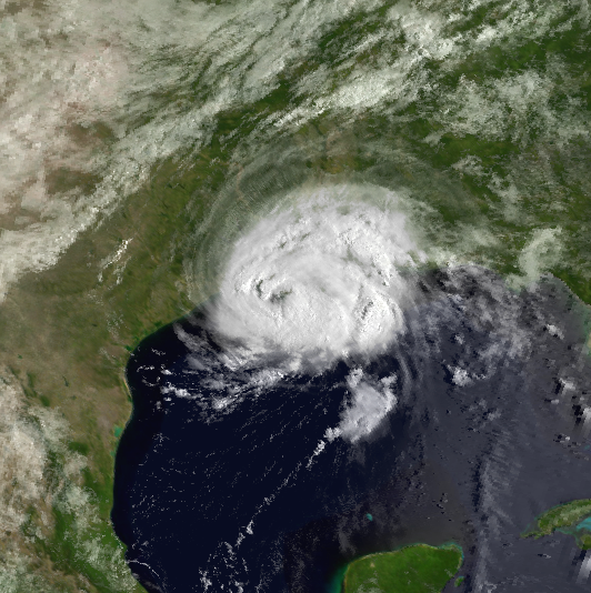 Hurricane Danny of the 1985 Atlantic hurricane season on August 15, 1985 at 1409z, while south of the United States Gulf Coast, with winds of 90 mph (150 km/h).